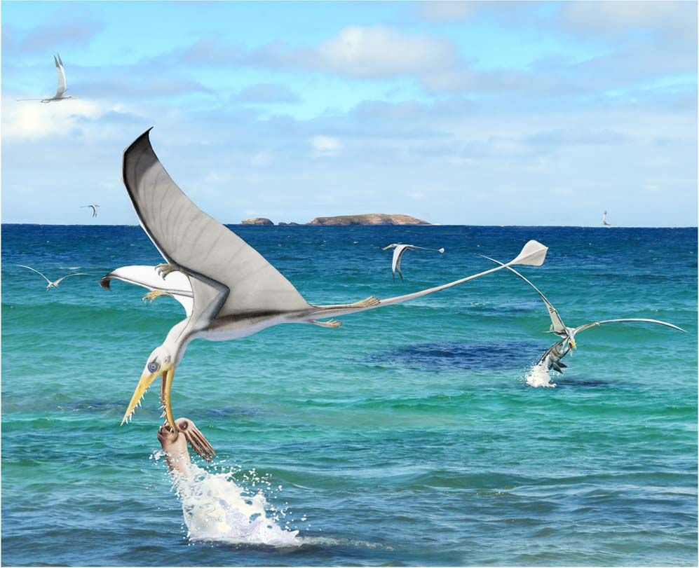 Reconstruction of Rhamphorhynchus muensteri preying upon a Plesioteuthis subovata